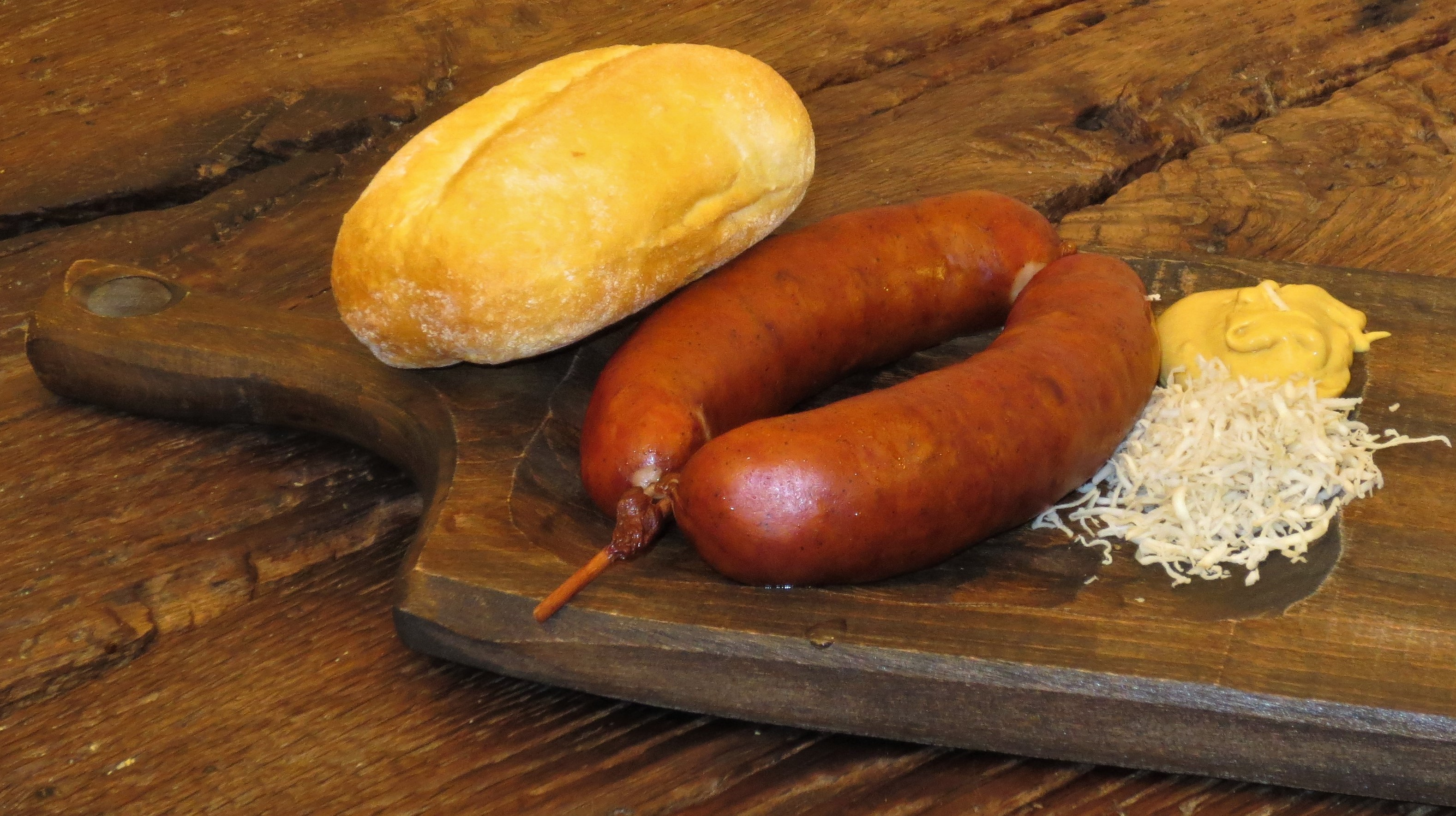 Kranjska klobasa / karniolian sausage served in Klobasarna, Ljubljana